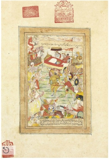 Lot Description An illustration to the Razmnama India, sub-imperial Mughal, circa 1610 An intense battle scene with the army general Shalya in heavy gilt armor in the center, facing the pandavas at left wearing jeweled crowns and holding weapons, their gestures and expressions implying a significant halt mid-fight, the horse-drawn chariots with billowing flags in all four corners, with inscriptions on the top and bottom and stamps of the Royal House of Lucknow in the margins Opaque pigments and gold on wasli 8½ x 5¼ in. (21.6 x 13.3 cm.), painting 15¾ x 11 in. (40 x 28 cm.), folio Lot Notes This folio from the Razmnama illustrates a significant episode during the final battle of the Mahabharata. Shalya was the ruler of Madra, a formidable and invincible warrior, making him a desirable ally. On hearing of the impending battle between the Pandavas and the Kauravas, he intended to join his nephews the Pandavas, to fight for good. But Duryodhana, the leader of the evil Kauravas, pretended to be the Pandavas and tricked Shalya into joining their side. To mend his predicament, Shalya promised Yudhisthira to help the Pandava brothers by demoralizing the Kauravas during the battle. But eventually he was killed by a spear. This painting shows a warrior (at left) holding the spear, and is likely the moment before Shalya's death.